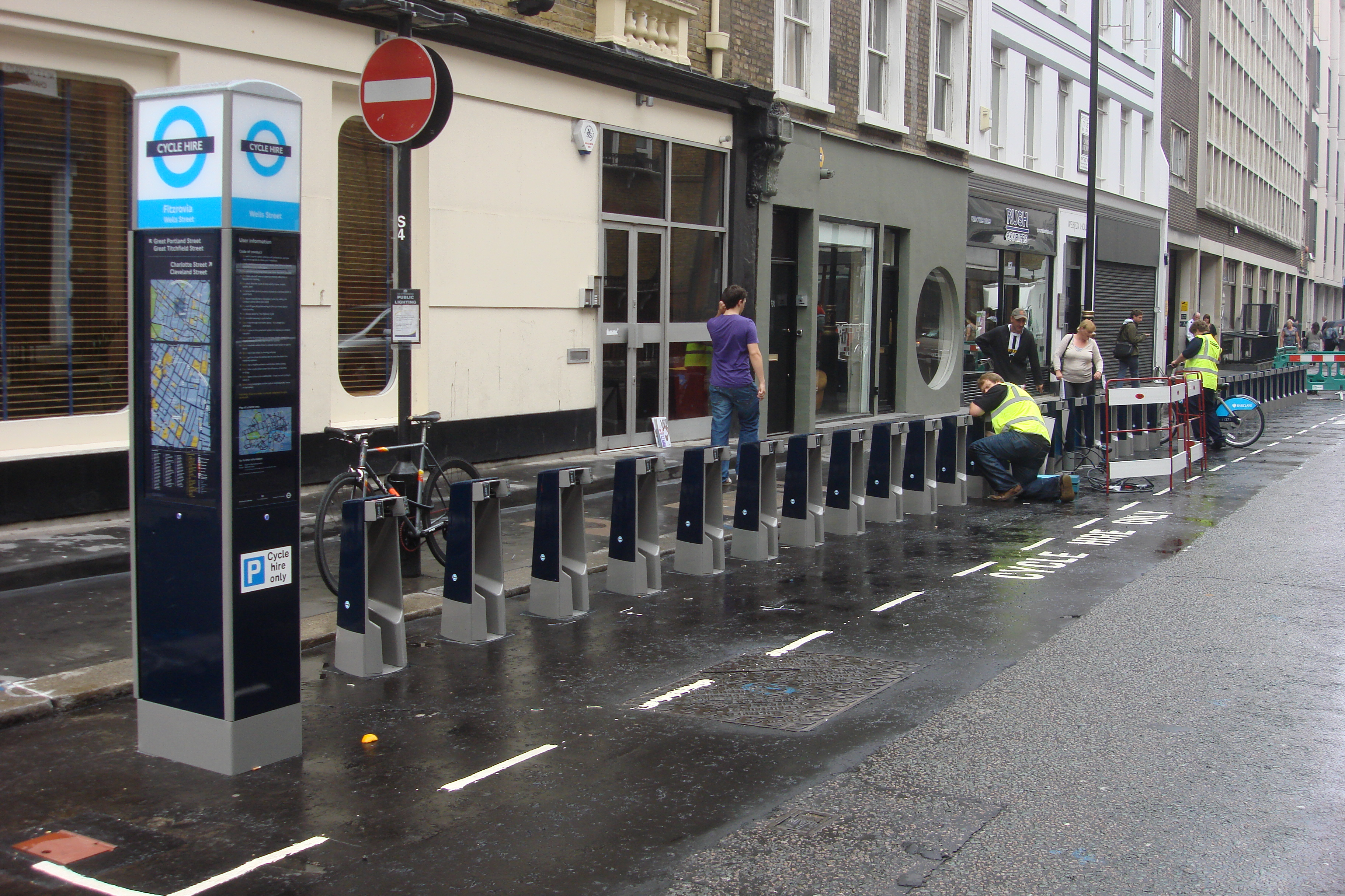 Barclays Cycle Hire Fitzrovia Wells Street docking station being installed.